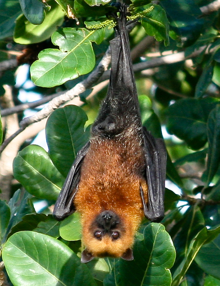 Pteropus seychellensis (Seychelles Fruit Bat). Taken at Praslin.